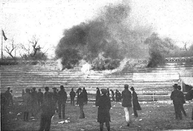 The Estadio GEBA grandstand while being fired by the spectators, after the Argentina-Uruguay match was suspended.